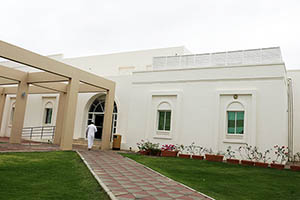 Facilities Centre in a buildup area of 4200 square meters named after the Arab historiographer and historian, Ibn Khaldūn.